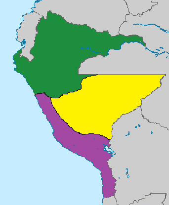 In green territory controlled by the government of Miguel Iglesias In yellow territory controlled by the resistance In blue the territory controlled by the Chilean occupation forces